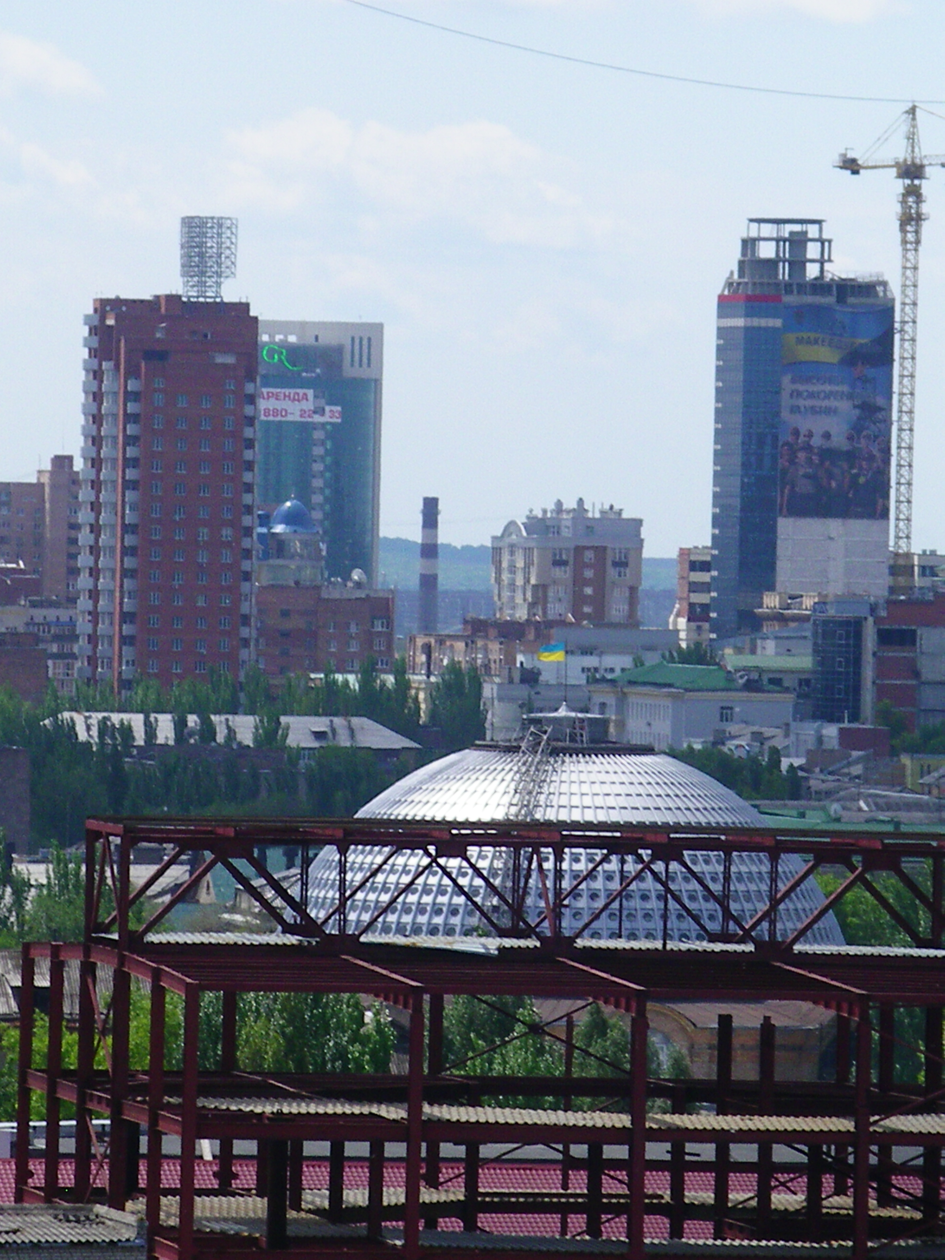 View from the roof of Centaur Plaza